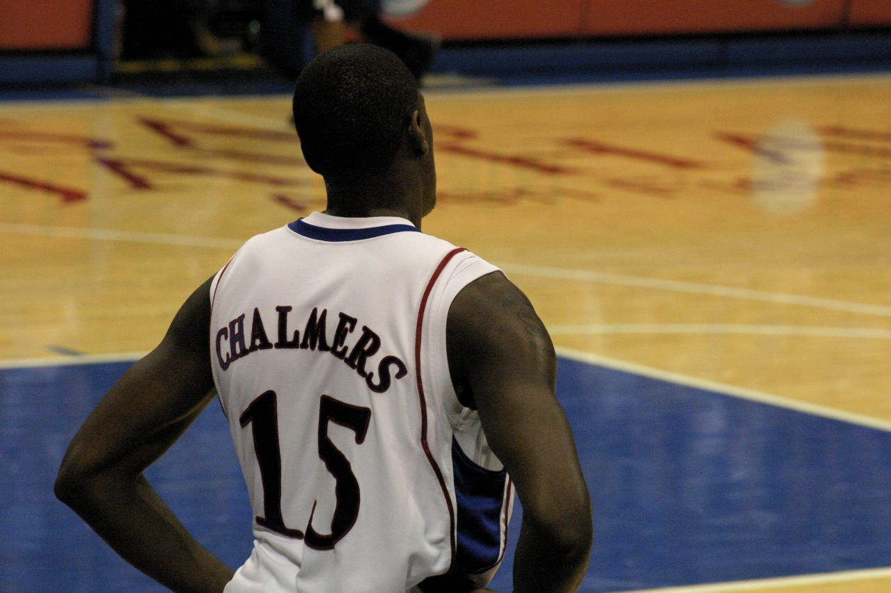 Mario Chalmers on November 15, 2007 – KU vs. Washburn.